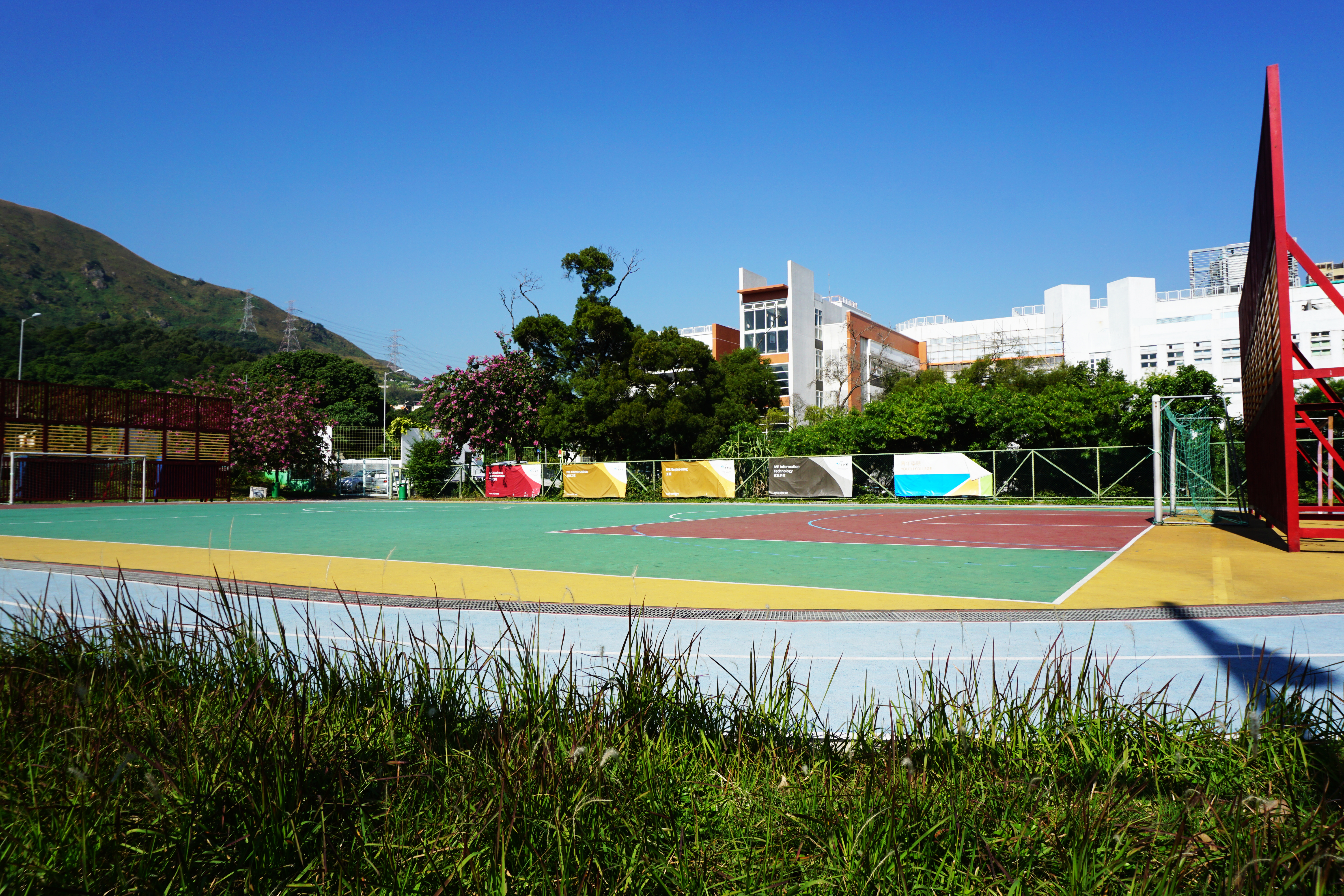 Institute of Vocational Education in Tuen Mun, Hong Kong.